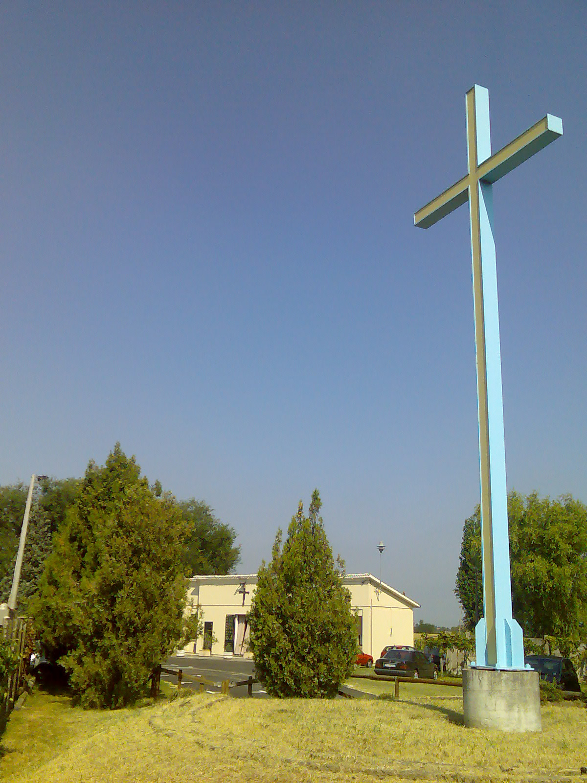 Cross of Love of Dozulé and parish church of Santa Rita.